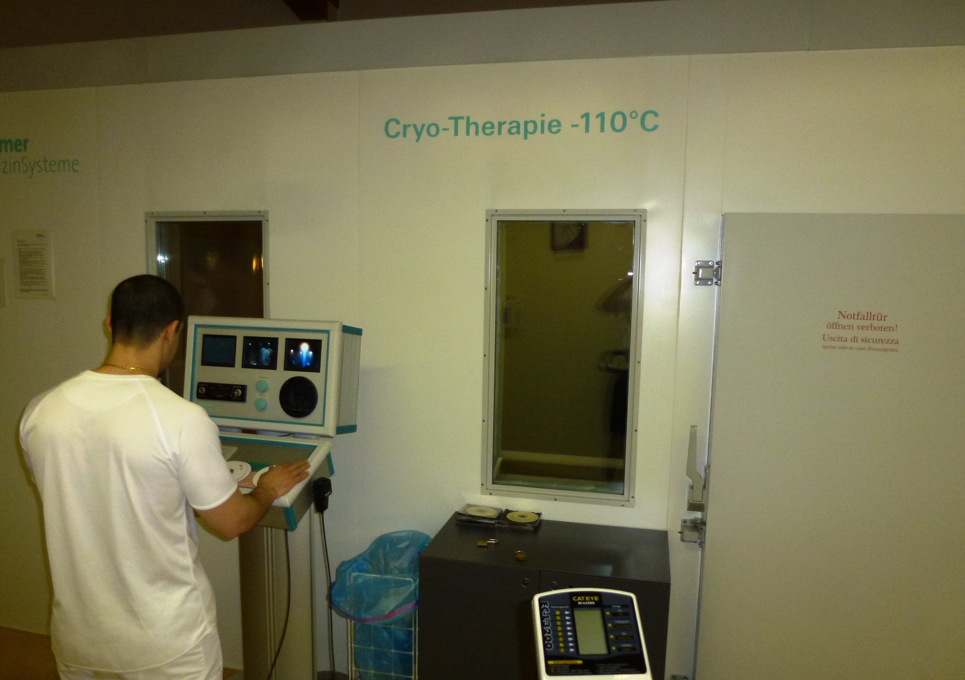 Cryo Therapy Chamber in Operation at Kurzentrum in Bad Bleiberg, Austria